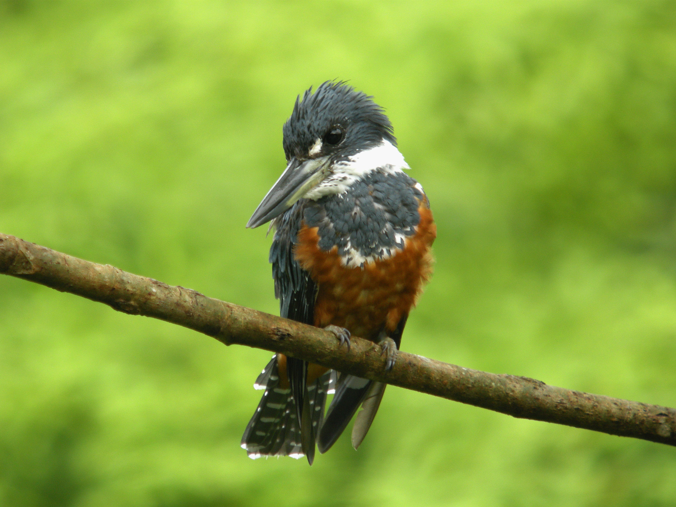 Digiscoping with Swarovski ATM 80 HD 30 X, Coolpix P5100 (Adapter DCB)